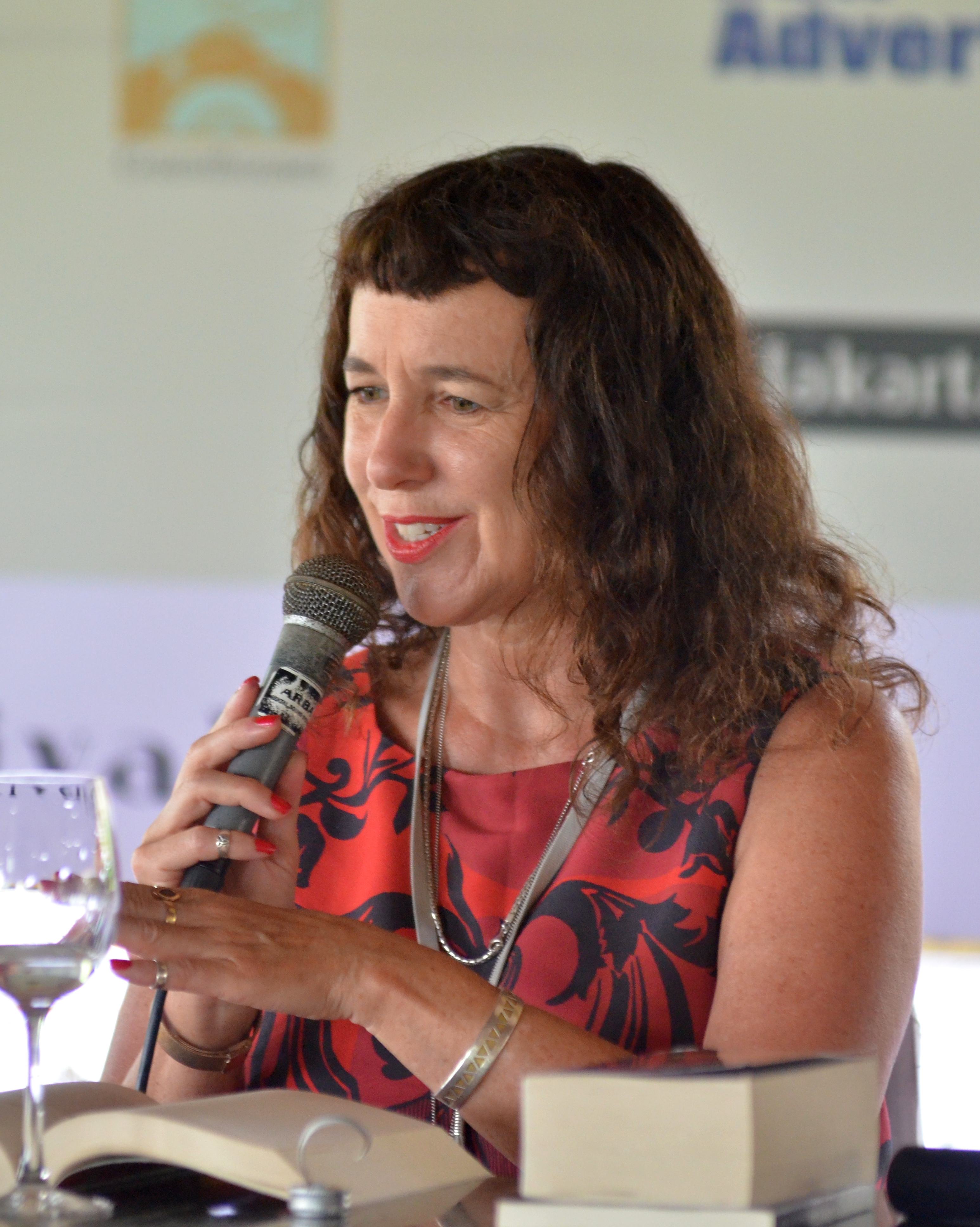 Ubud Writers & Readers Festival 2012. Image credit Anggara Mahendra.